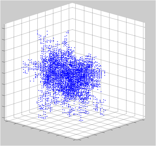 Created for a peer-reviewed journal article in The International Journal of Astrobilogy in submission.